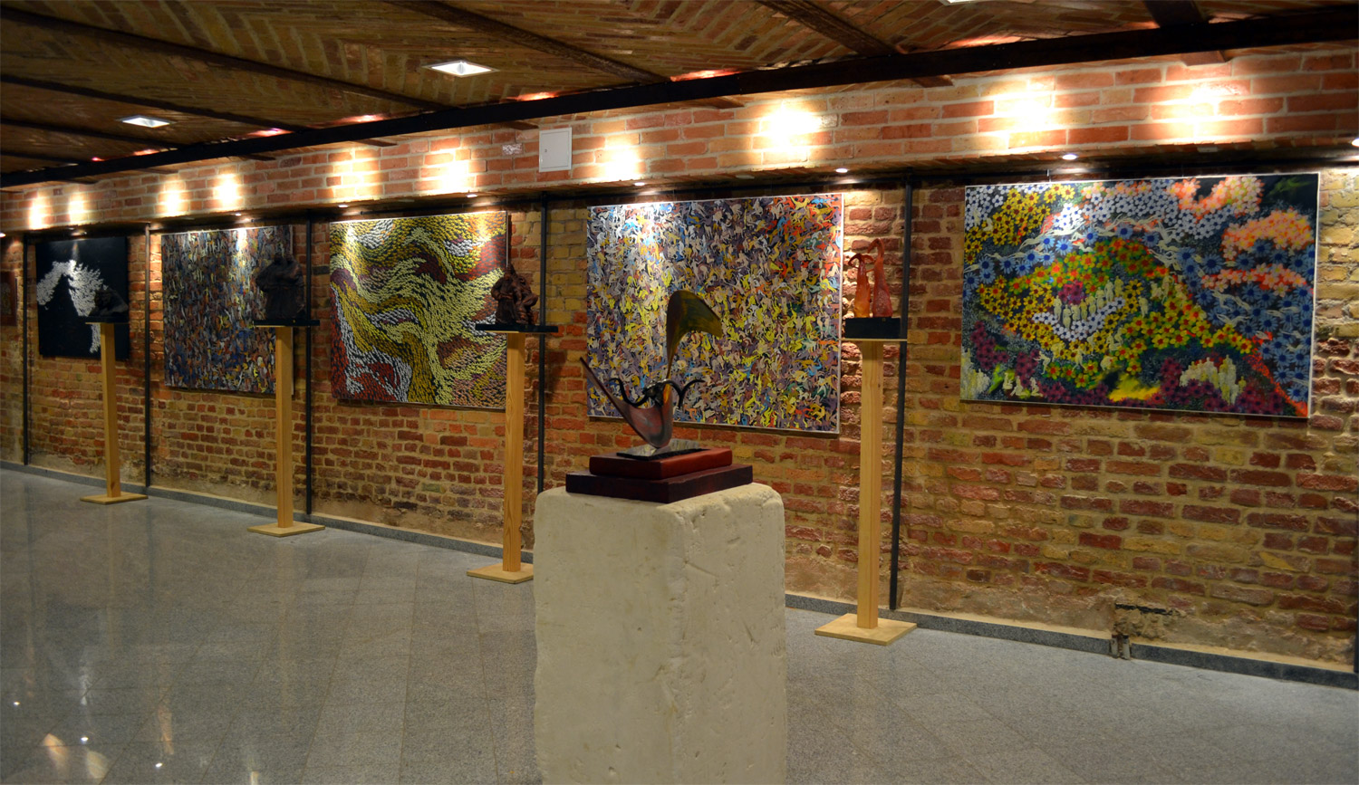 Art Gallery ZURAG Berlin